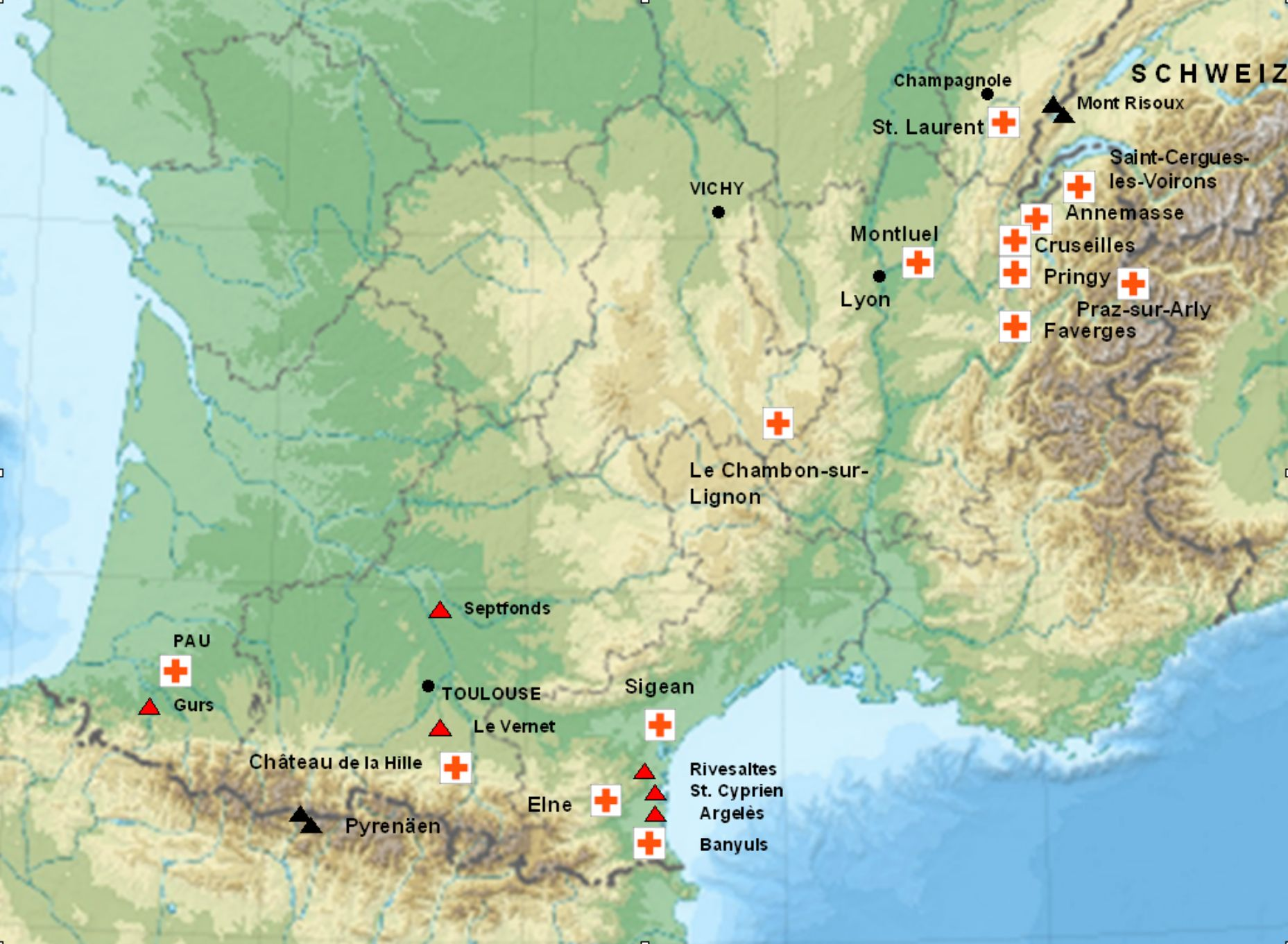 Kinderheime der Kinderhilfe des Schweizerischen Roten Kreuzes Kinder (SRK, Kh)